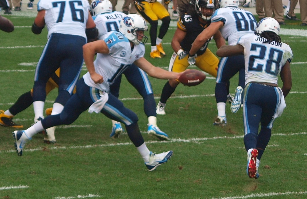 Jake Locker hands off the football to Chris Johnson vs. Pittsburgh Steelers, sep. 8th, 2013